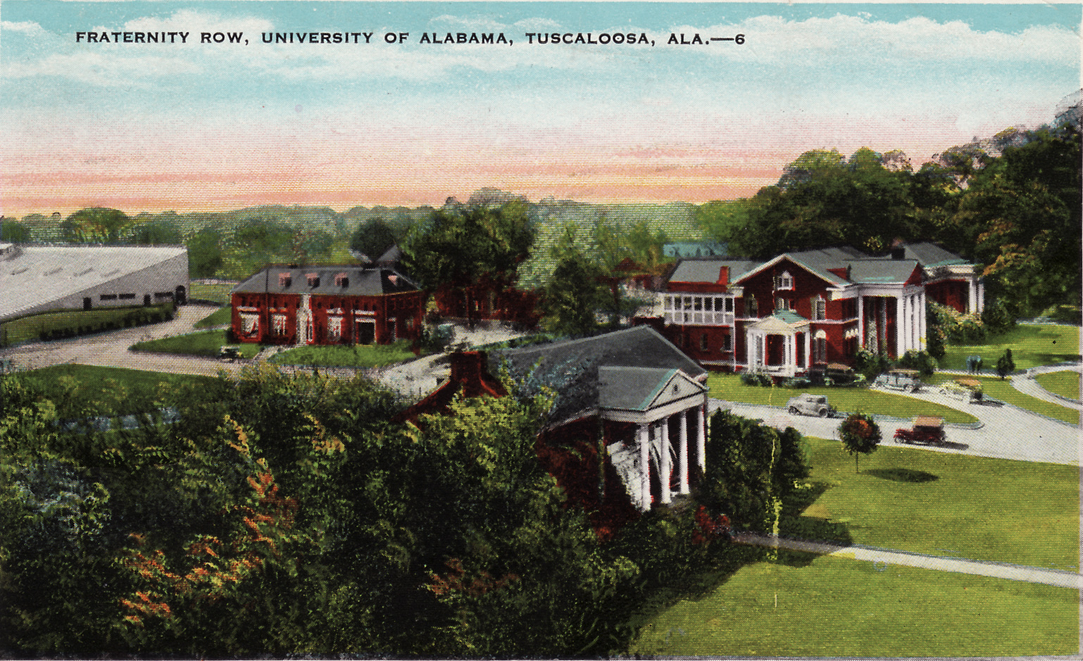 Postcard image of Fraternity Row at the University of Alabama.